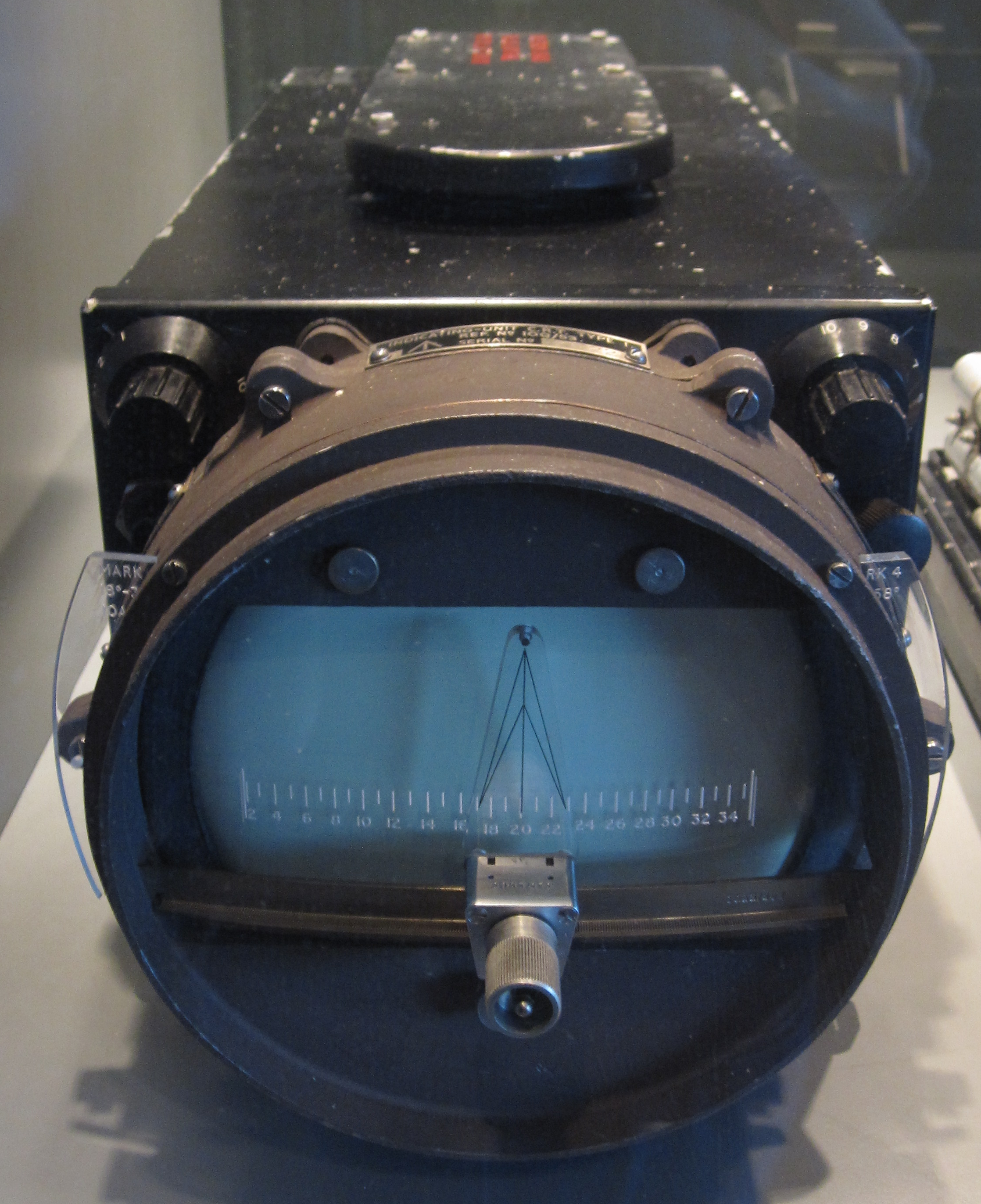 ASDIC display in Berlin Museum of Technology